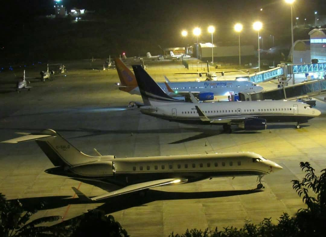 Airlines at Argyle, night view.